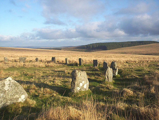 Part of the east circle at Grey Wethers This is one of the twin circles at Grey Wethers on Dartmoor.